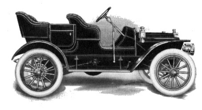 1911 Maytag 24 HP Model B Toy Tonneau. This is a light bodied, close-coupled sporty touring car for four persons.